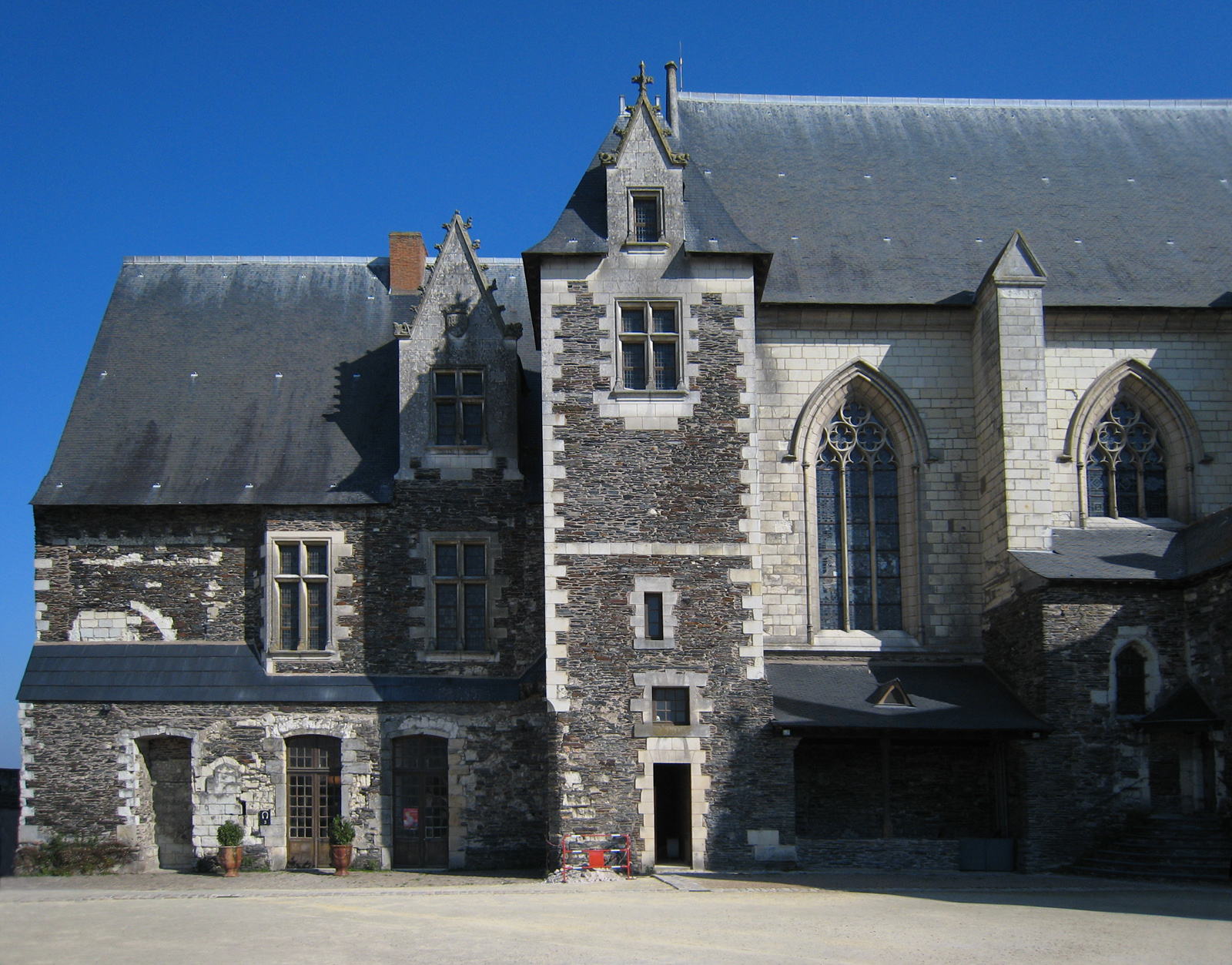 Royal mansion and adjacent chapel in the lordly area of the Castle of Angers in the county of Maine-et-Loire/France.